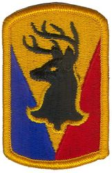 86th Infantry Brigade shoulder sleeve insignia. Representation of United States Army insignia, ineligible for copyright